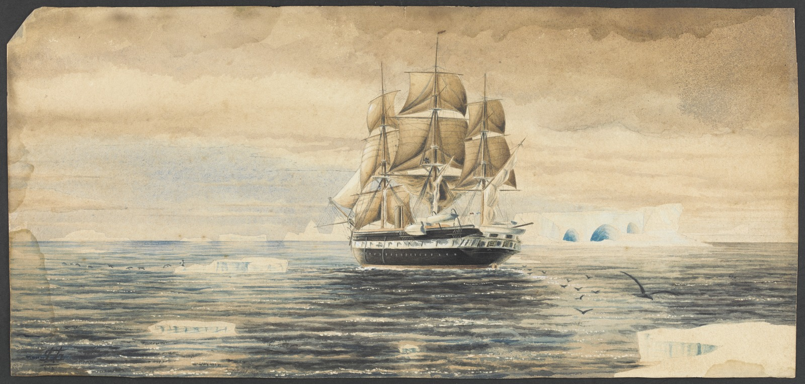 Drawn by Royal Navy sub-lieutenant navigator Swire on the HMS Challenger during the scientific voyage of 1872-1876. His note - Monday February. 16th. 2.30 pm. Tacked & stood north. / Lat 66 - 40 - S / Long 78 -15 - E